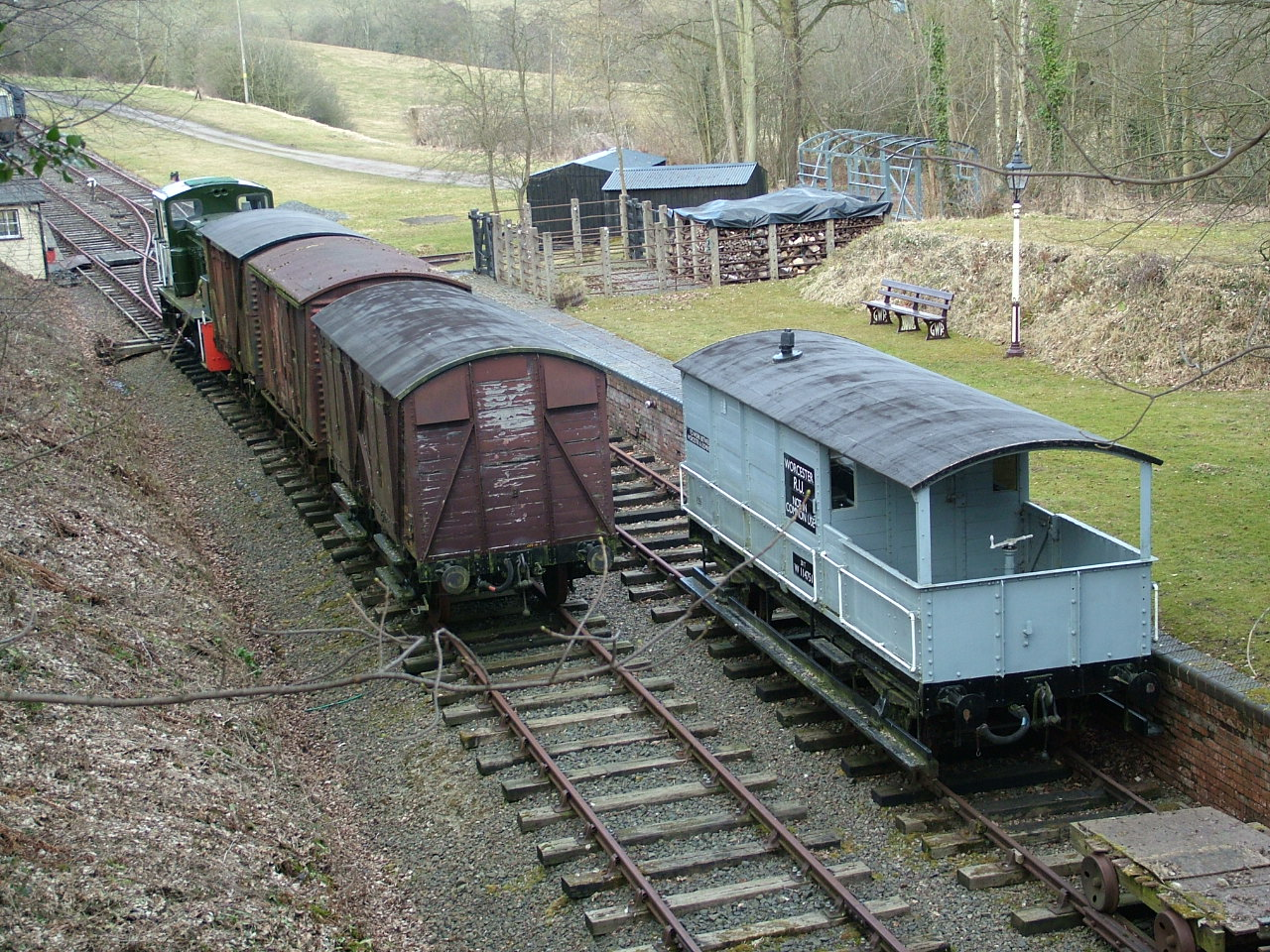 Rowden Mill station, Herefordshire. Rolling-stock at the long-closed (1952) Rowden Mill station, Herefordshire.